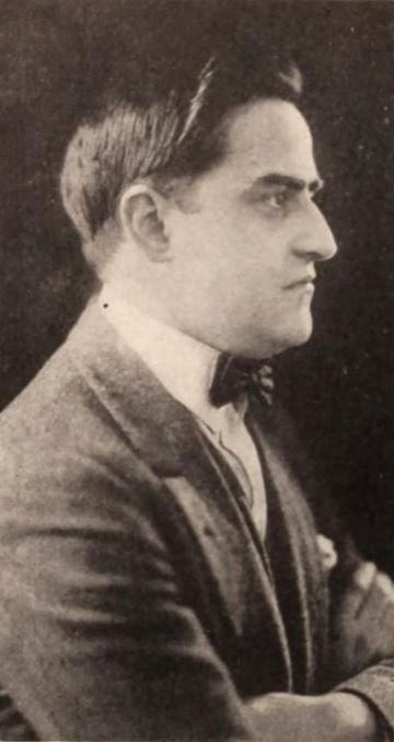 Actor and film producer / studio executive W. Ray Johnston (1892 – 1966), on page 74 of the June 4, 1921 Exhibitors Herald.